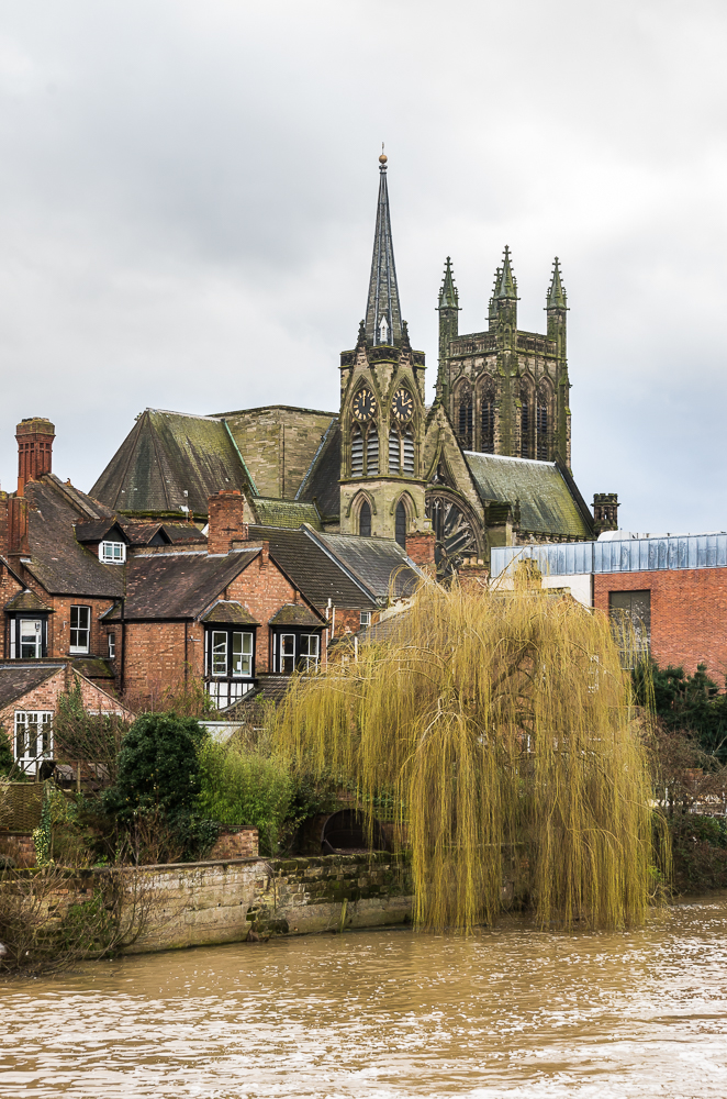 Across the River Leam Looking across the River Leam from next to Mill Bridge, with All Saints Church in the background.